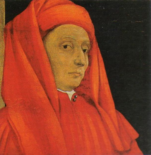 portraits of Giotto, Paolo Uccello, Donatello, Antonio Manetti and Filippo Brunelleschi